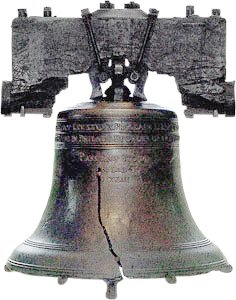 Liberty Bell in Philadelphia, Pennsylvania